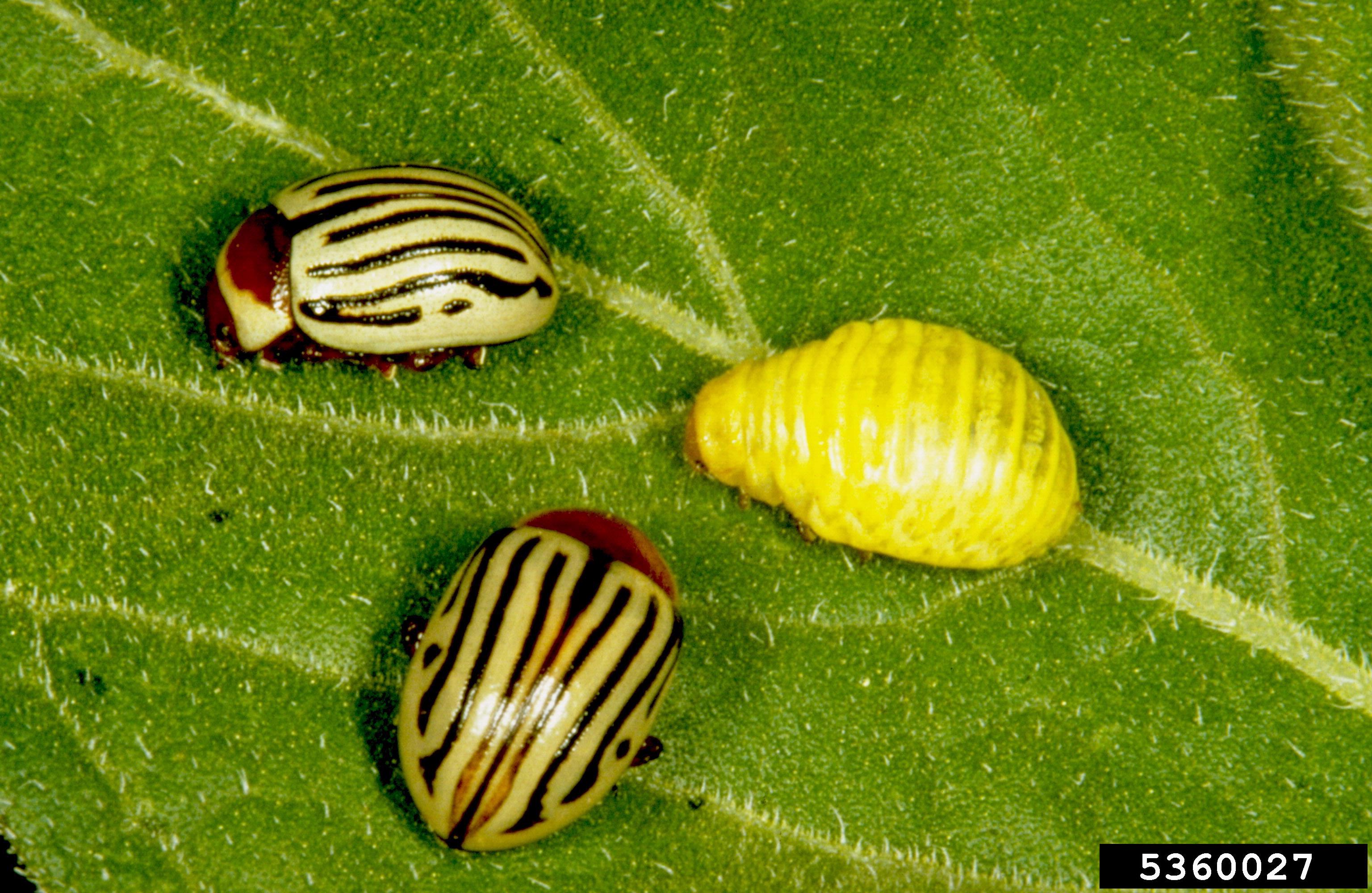 Two adults and a larvae of Zygogramma exclamationis